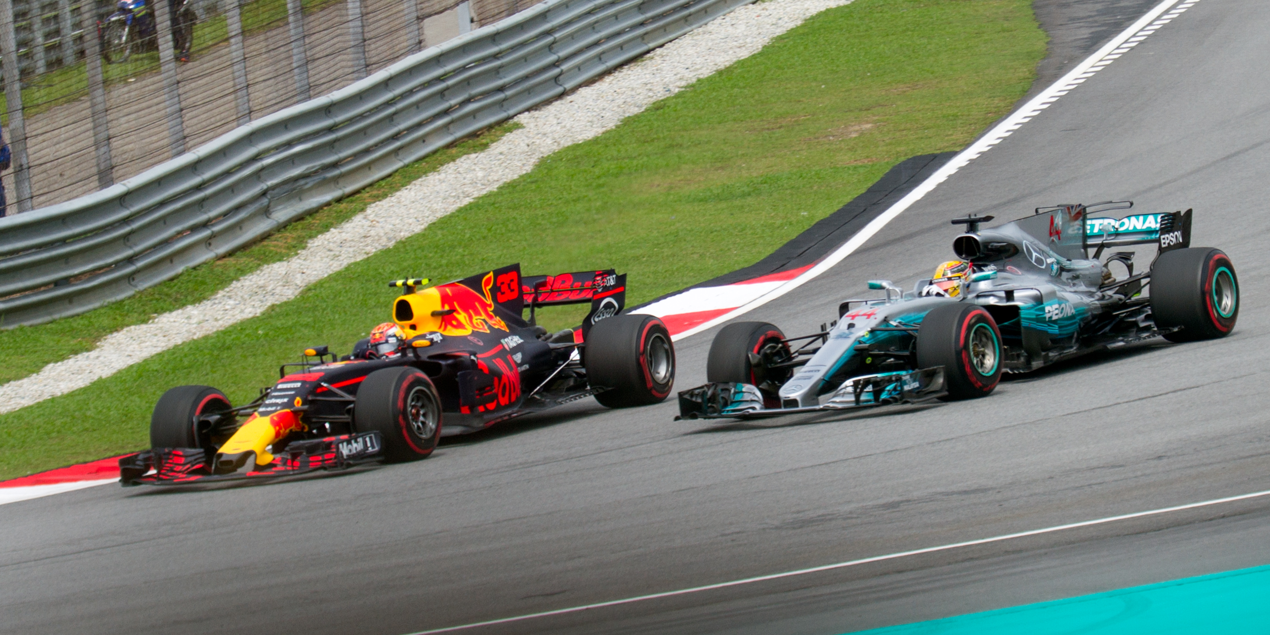 Formula One 2017 Rd.15 Malaysian GP: Max Verstappen (Red Bull) overtaking Lewis Hamilton (Mercedes)